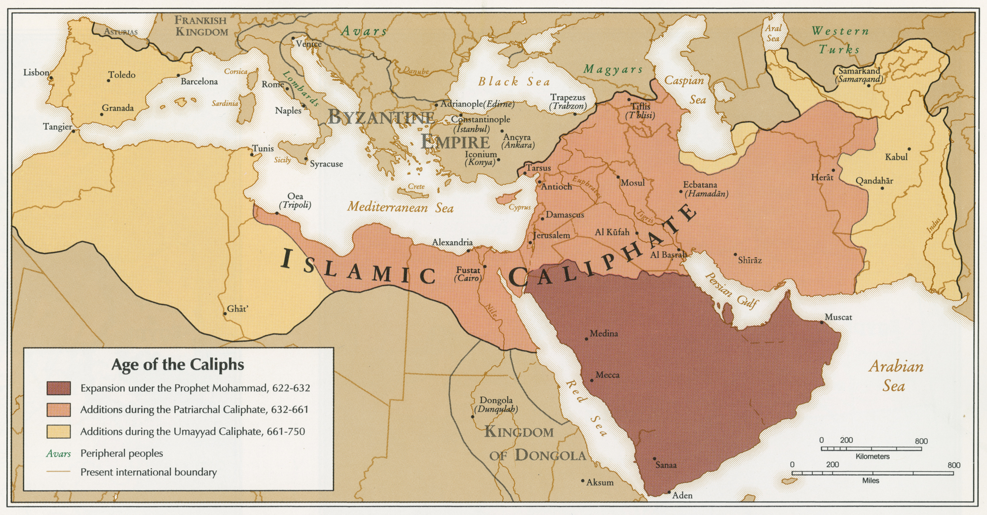 Zoom into this map at . Publisher: CIA Date: 1993. Location: Middle East Scale: Scales differ. Call Number: G2205 .U5 1993